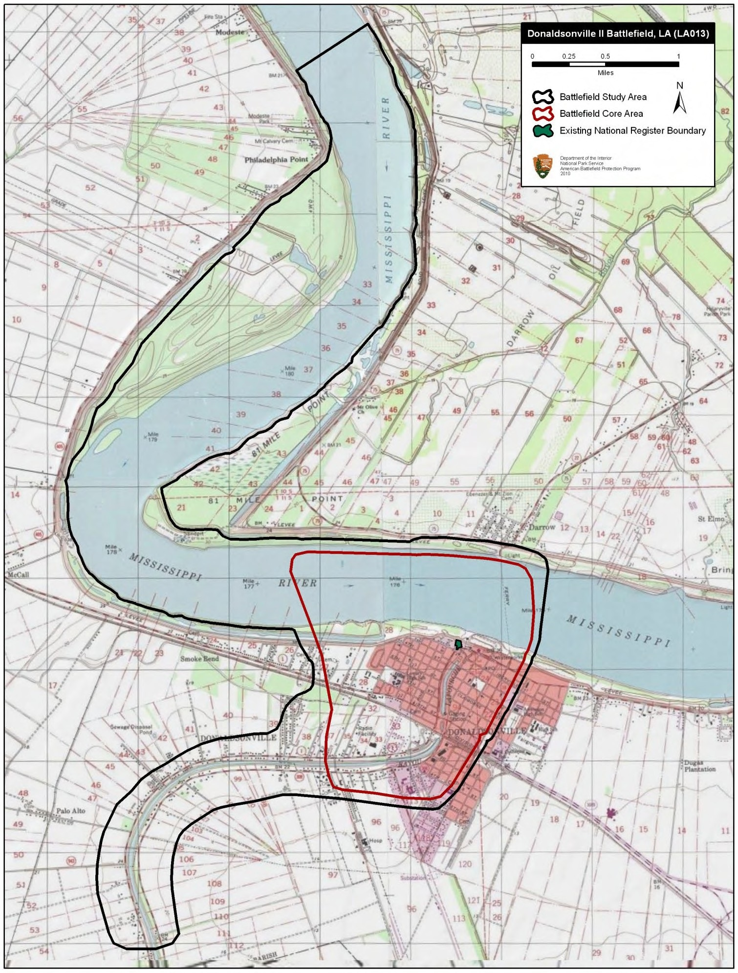 Map of battlefield core and study areas. The ABPP’s revised Study Area extends up the Mississippi River to take in the approach of the Federal gun boats, which were steaming to the aid of the Fort Butler garrison. The southern approach represents the Confederate advance from the point where Green deployed his troops for a two-pronged attack on the fort. The Core Area was expanded to include the naval bombardment from the river.